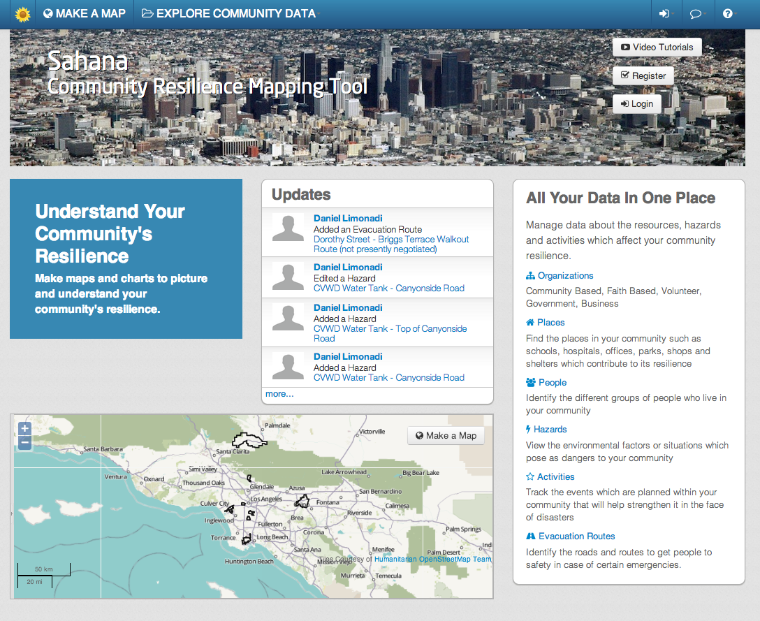 This is a screen shot to represent the Sahana Software Foundation Community Resilience Mapping Tool. Other information The County of Los Angeles links to the demo server on the Sahana Foundation web site, showing this screen shot. The rest of the application is password restricted, but this image can be freely reproduced as a representation of the software. To verify that the software is open source, please see the information on